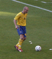 Fredrik Ljungberg playing for Sweden against Chile at the Råsunda soccer stadium on 2 June 2006